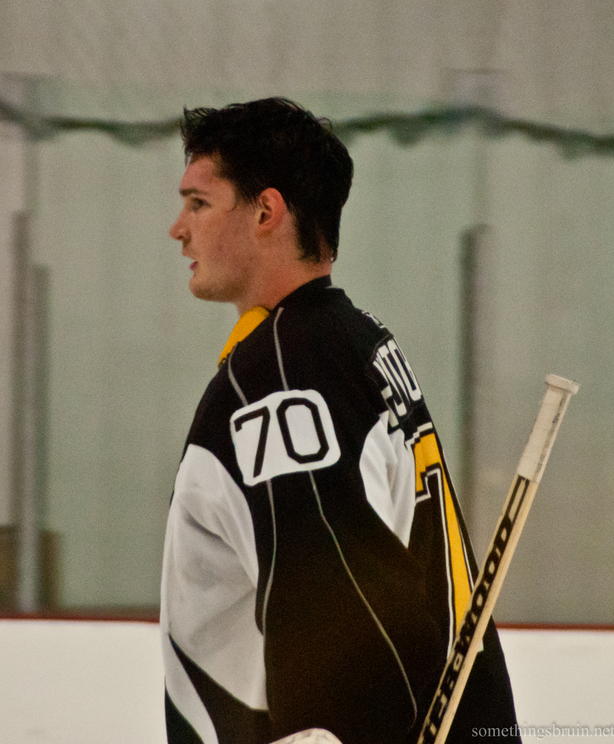 Bruins Dev Camp-6877.jpg Boston Bruins 2011 Development Camp - Day 3 National Hockey League (NHL) Photo taken by Sarah Connors at Wilmington, Massachusetts on July 9, 2011 using a Nikon D200. This photo also appears in sarah_connors' Flickr set: Bruins 2011 Development Camp - Day 3 (Set: 109)